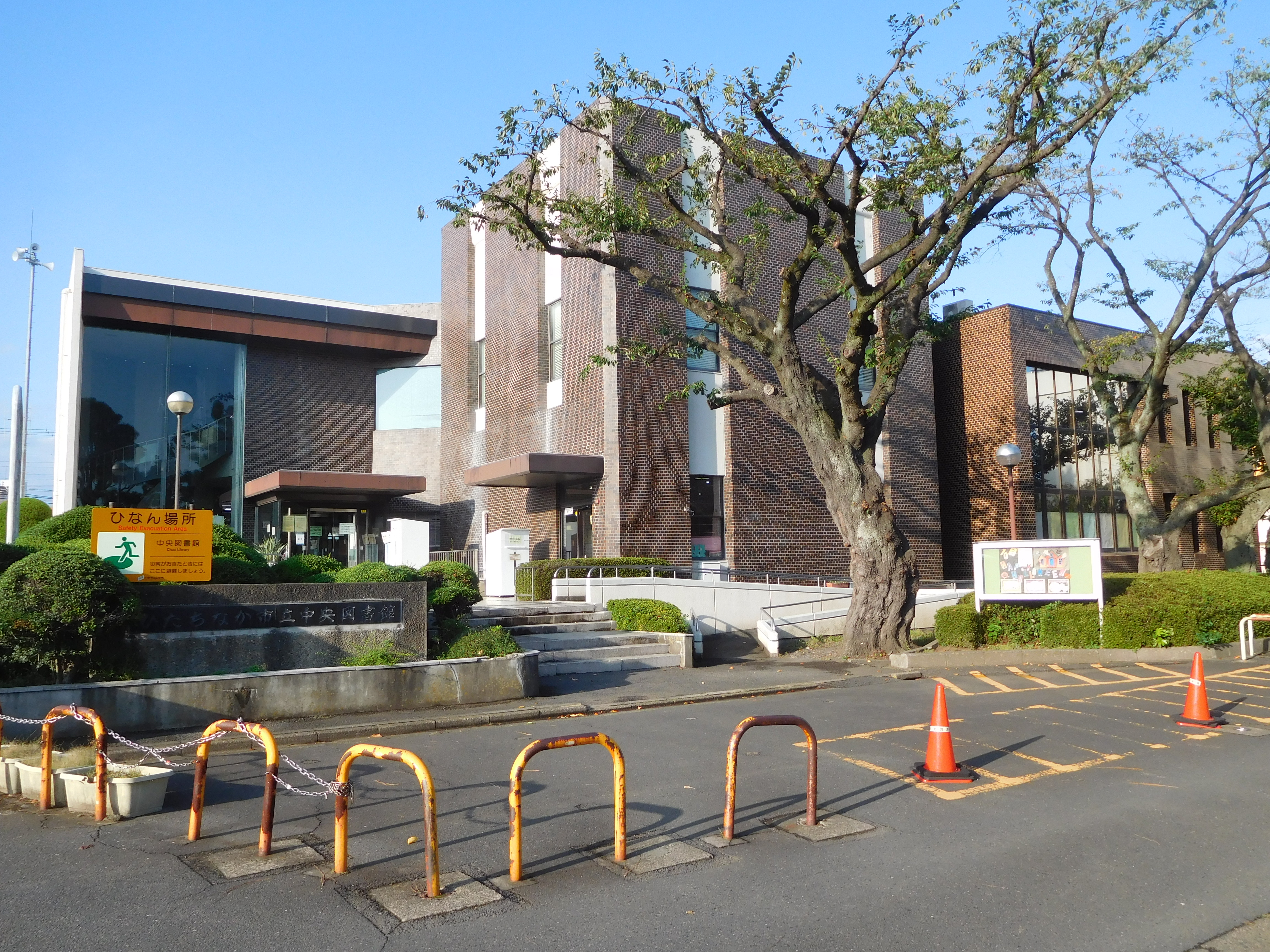 This is Hitachinaka City Chuo Library in Ibaraki, Japan.